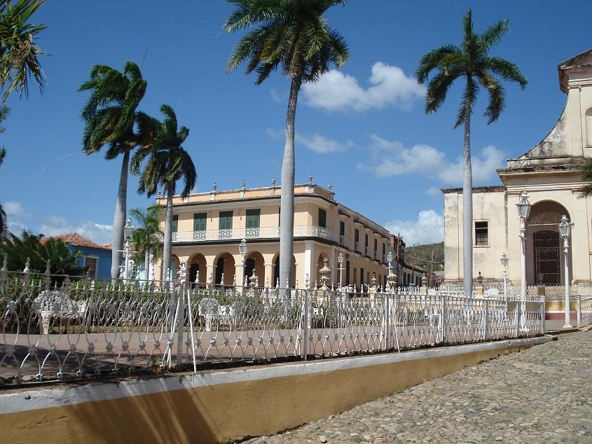 Buildings and gardens, in Trinidad, Cuba. Licensing